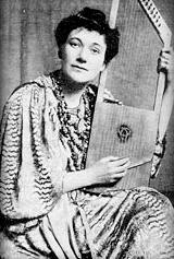 Florence Farr with her psaltry harp.